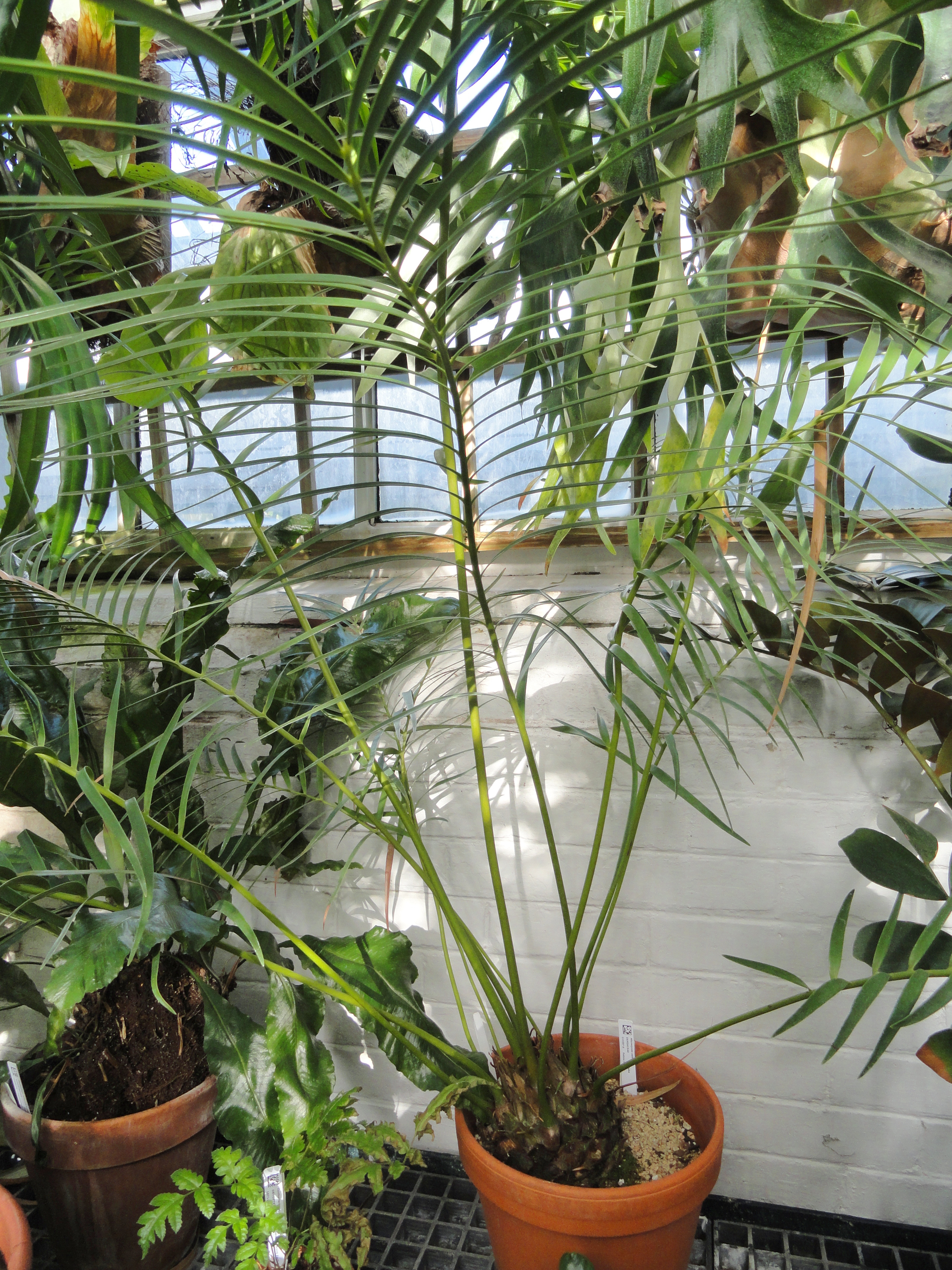 Botanical specimen in the Lyman Plant House, Smith College, Northampton, Massachusetts, USA.